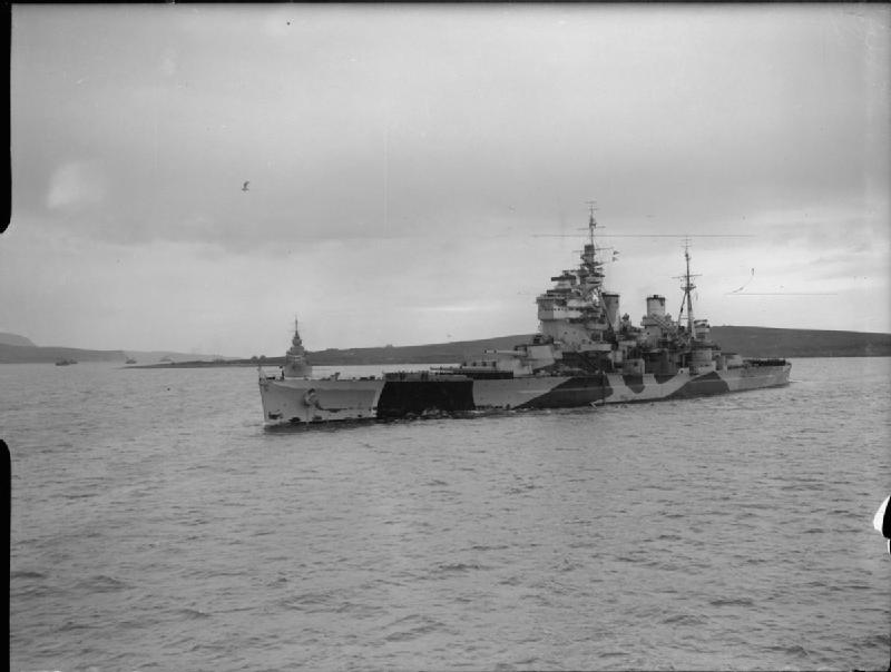 The Royal Navy during the Second World War HMS ANSON arriving at the Fleet anchorage.